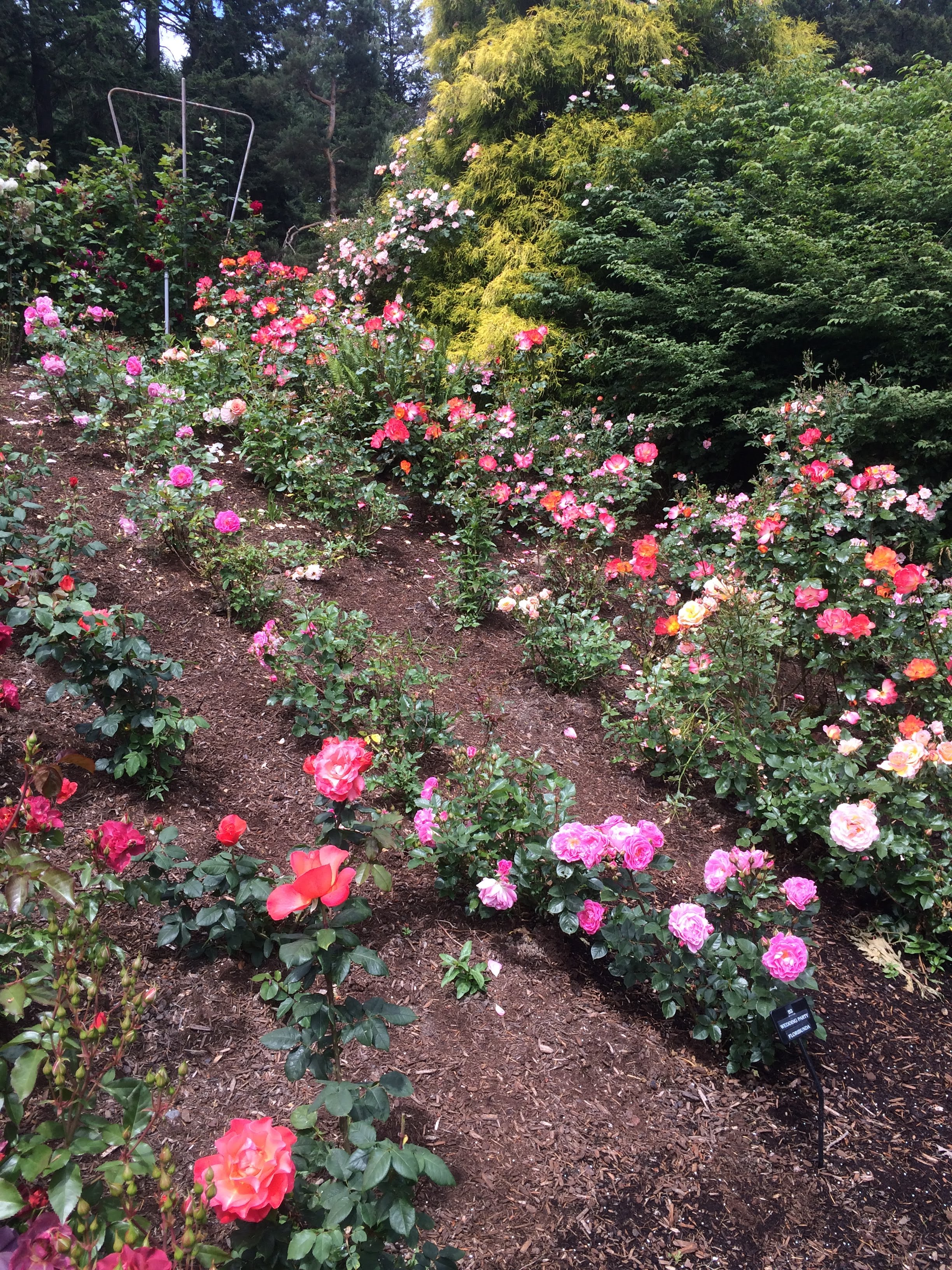 The garden in full bloom in June of 2018